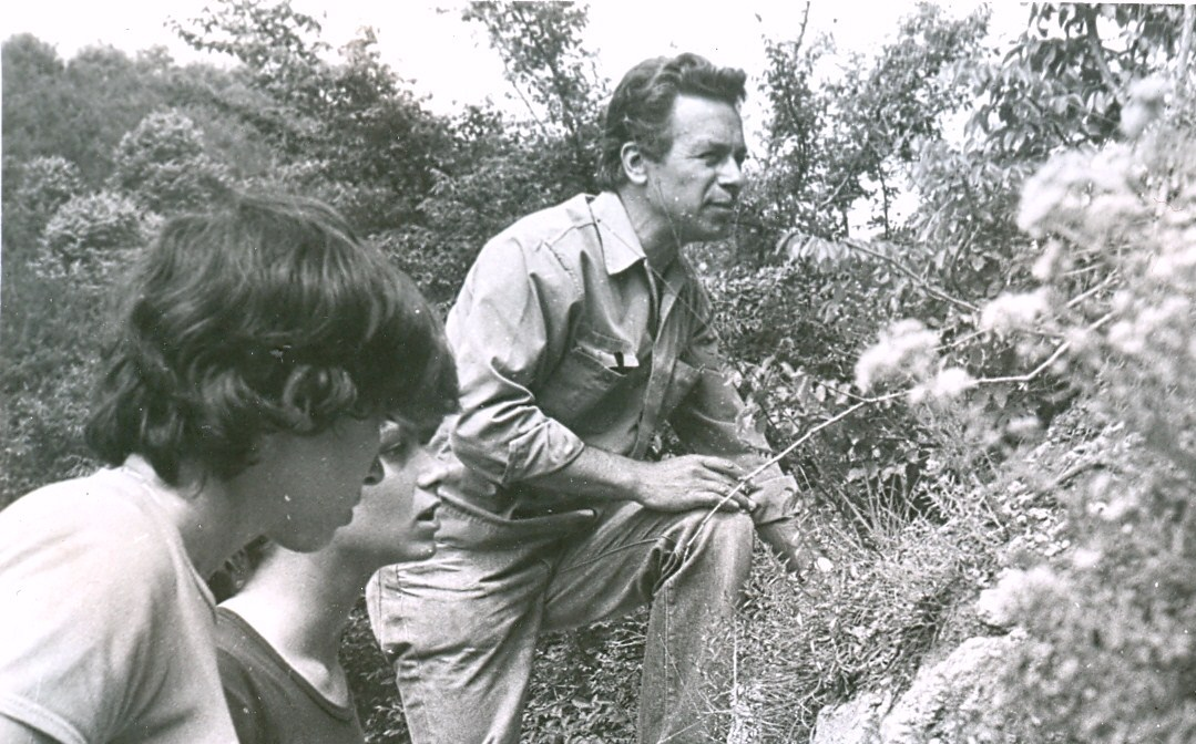 Dr Breskovski during a fossilling day with students (Summer 1981, Expedition Chernelka, Bulgaria)